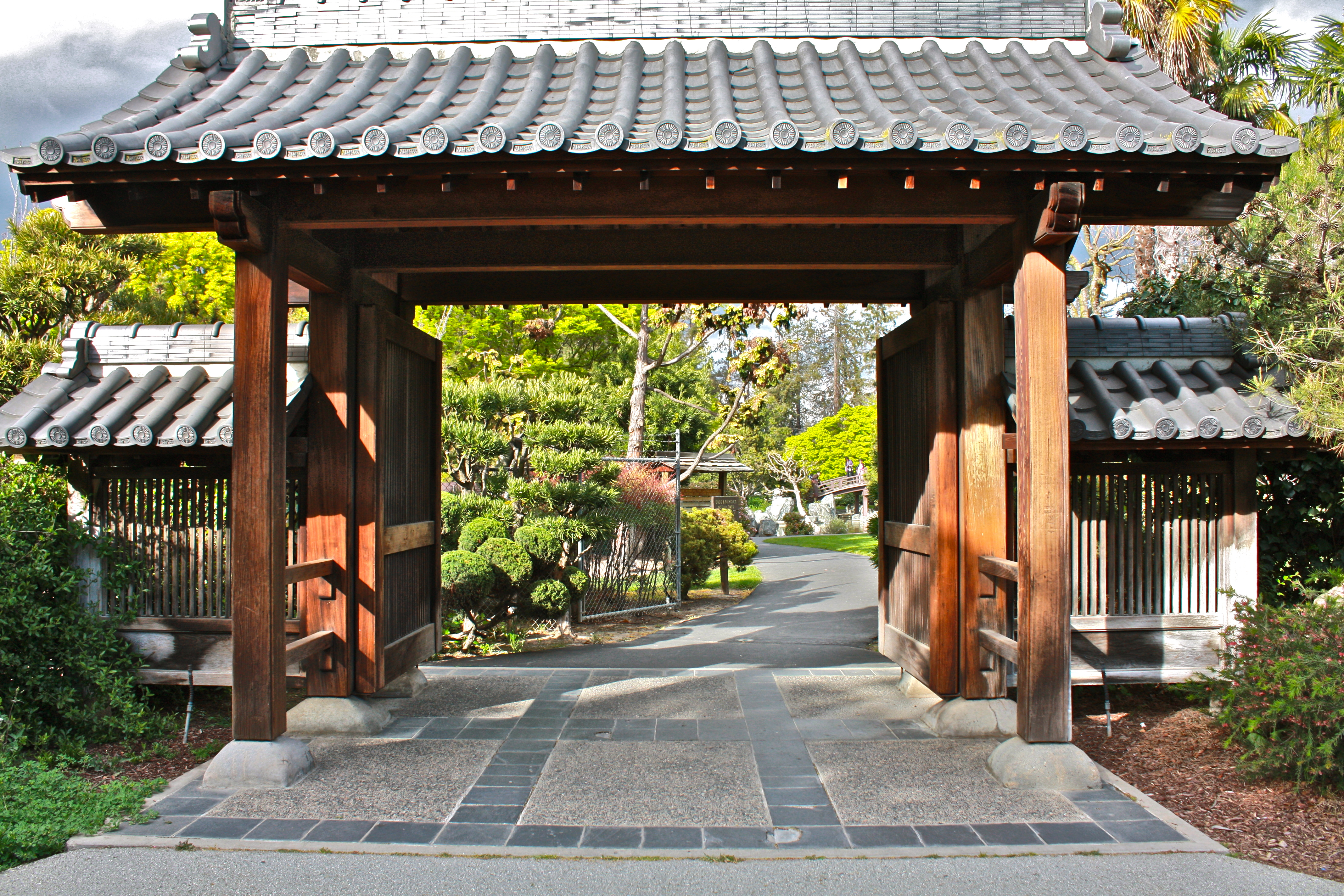 Entrance to Japanese Friendship Garden (Kelley Park) in San Jose, California